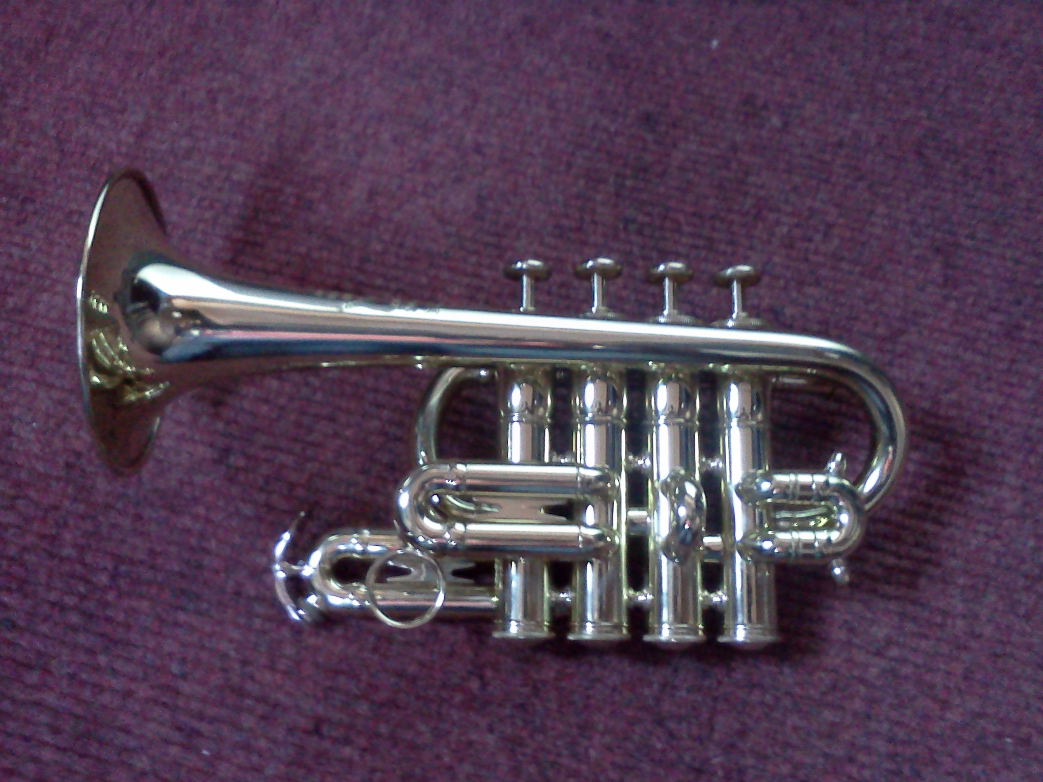 A photo of a piccolo trumpet.